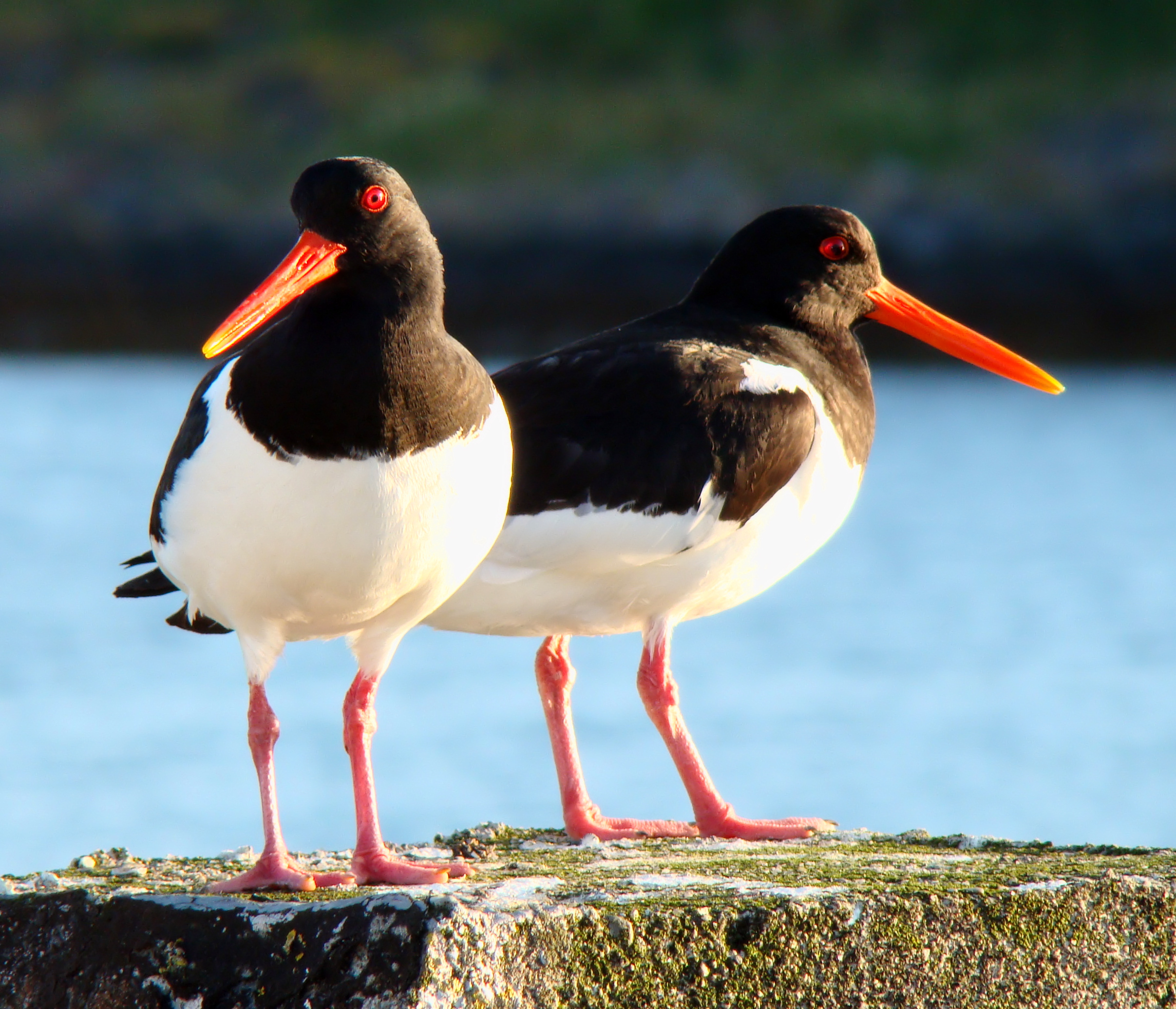 A nesting couple of Eurasian oystercatcher photographed in Northern Norway in June 2009.